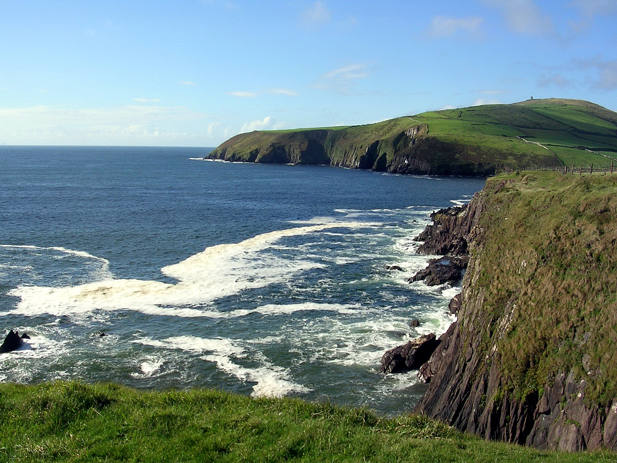 Dingle, County Kerry, Ireland